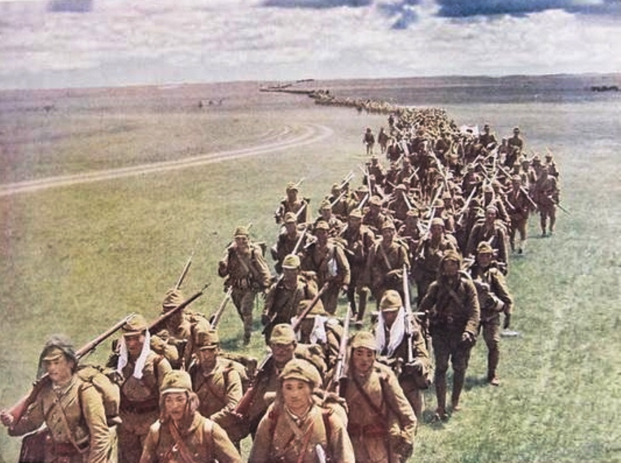 Infantryman of the IJA 23rd Division marching in the Mongolian Steppe during Battles of Khalkhyn Gol, July 1939. During this campaign the 23rd Division suffered a total of 11,958 men killed, or about 80% of its combat strength. Notably, the only divisional sub-unit not suffering a crippling casualties was the reconnaissance regiment, which was able to break a Soviet encirclement. As a result, commanding General Michitaro Komatsubara was recalled to Japan in disgrace.